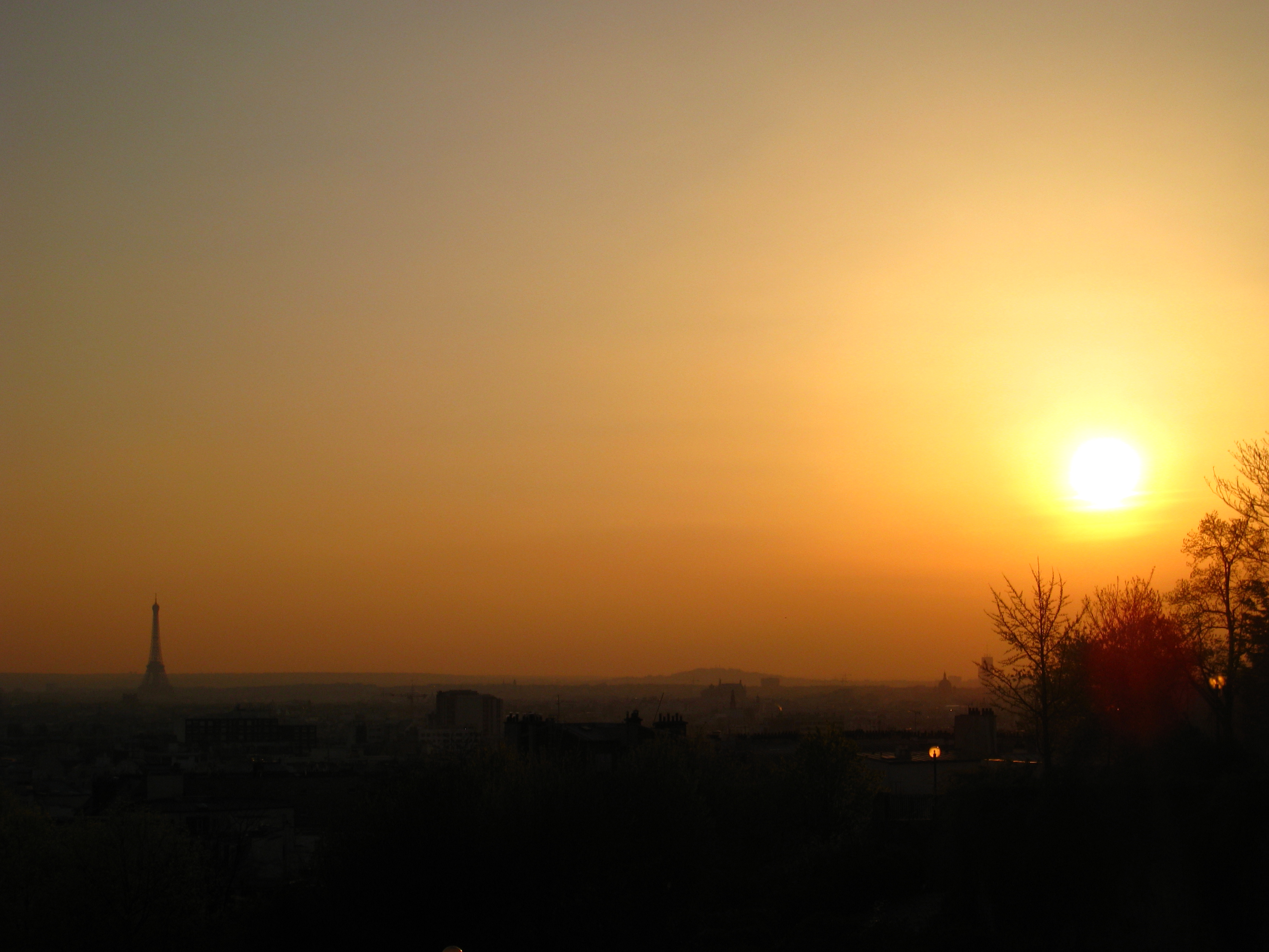 Sunset at Paris without any plane contrail in the sky.